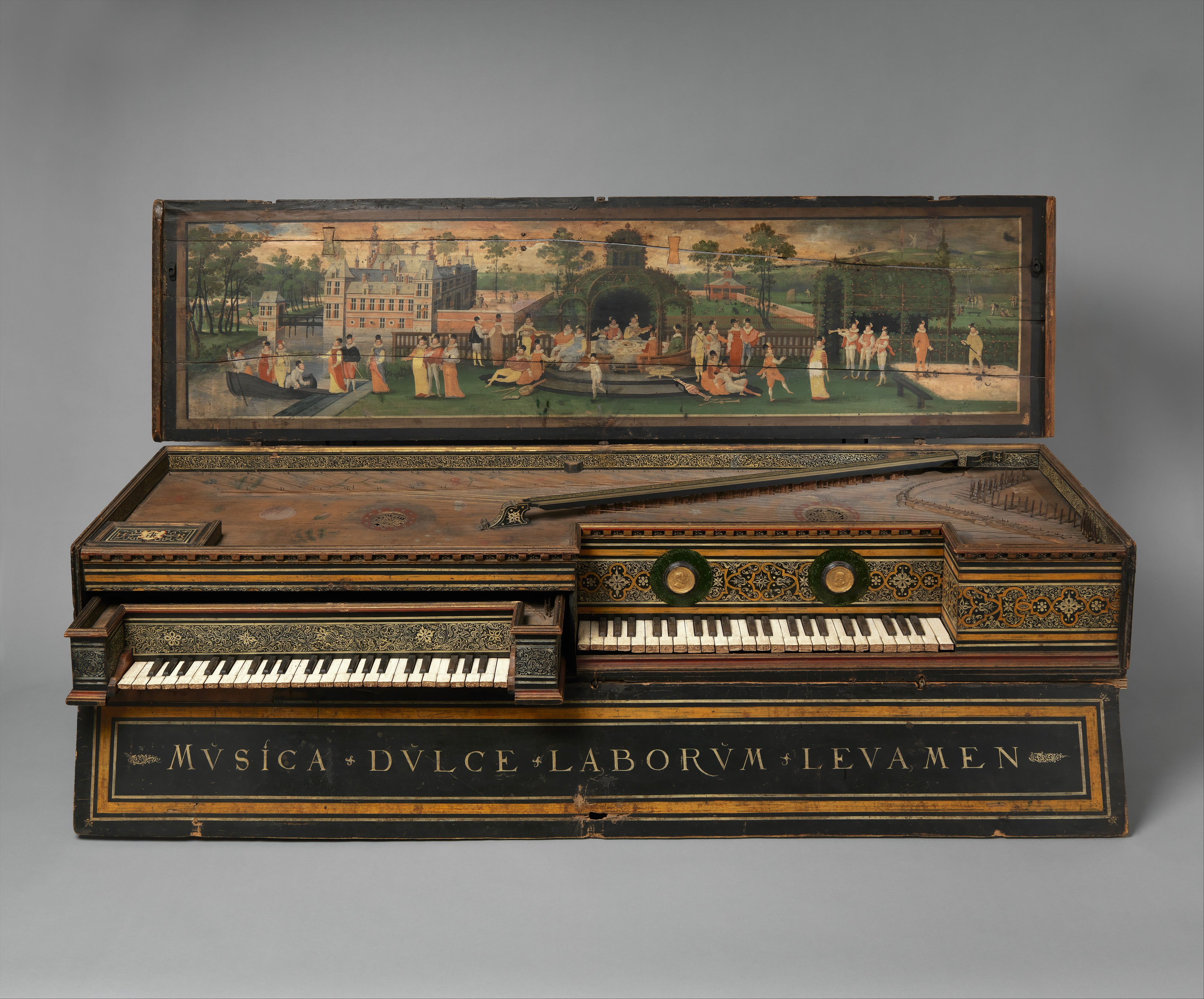 Flemish; Double Virginal; Chordophone-Zither-plucked-virginal